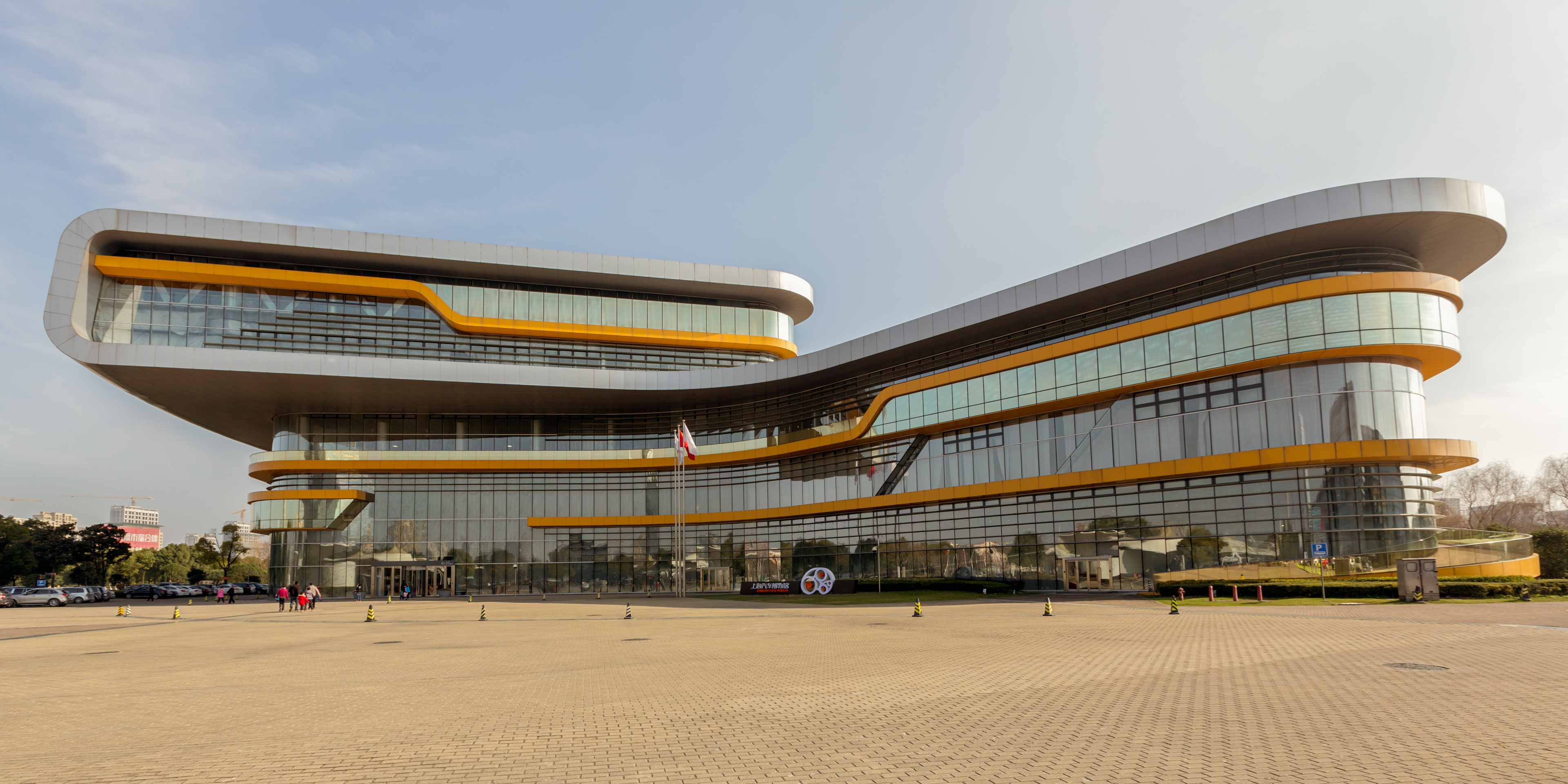 Shanghai Auto Museum